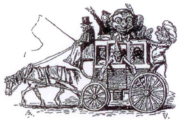 Engraving from the book by Théophile Lavallée "The devil in Paris: Paris and Parisian manners and customs, characters and portraits of the inhabitants of Paris, complete picture of their lives ..." (text by MM. Balzac, Eugene Sue, George Sand, et al.) a series of prints with captions by Gavarni ... thumbnails by Bertall ..., J. Publisher Hetzel, Paris 1845-1846. Illustration of the Carnival of Paris. Title of the design: On the boulevards. The crew of the Jockey Club ("On the Boulevards", i.e on the line of the Greats)